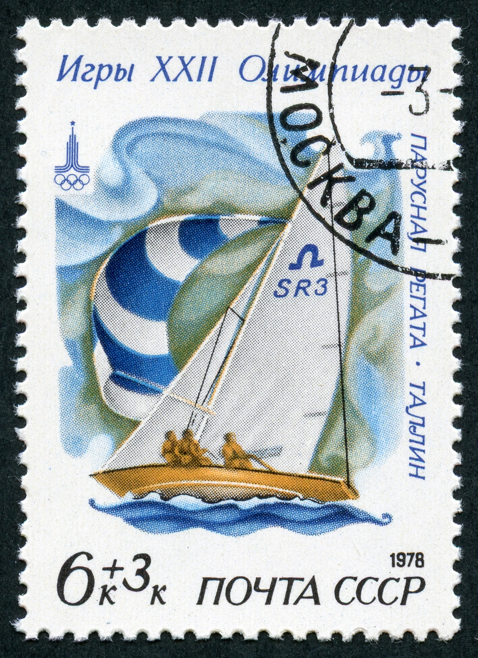 A USSR stamp